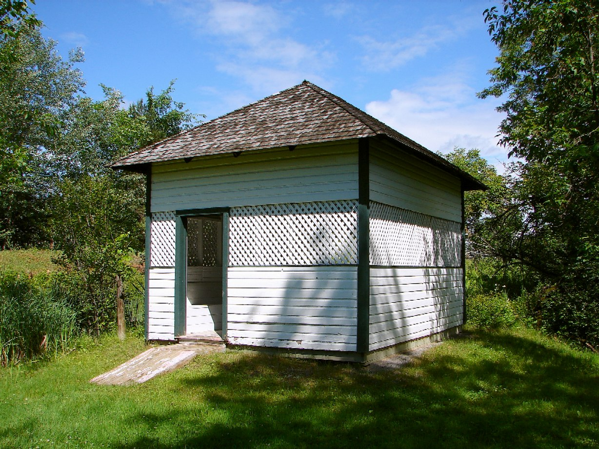 Only remaining springhouse in Carlsbad Springs (City of Ottawa), Ontario, Canada